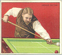 George Butler Sutton tobacco card. Sutton was a dominant player of straight rail and balkline billiards in the late 19th century and early 20th century. This card has often been described as an erroneous representation of double-amputee billiards player George H. Sutton; however, in addition to the fact that the man represented has both hands and both forearms, the facial hair of the man shown here is that of George Butler Sutton.)